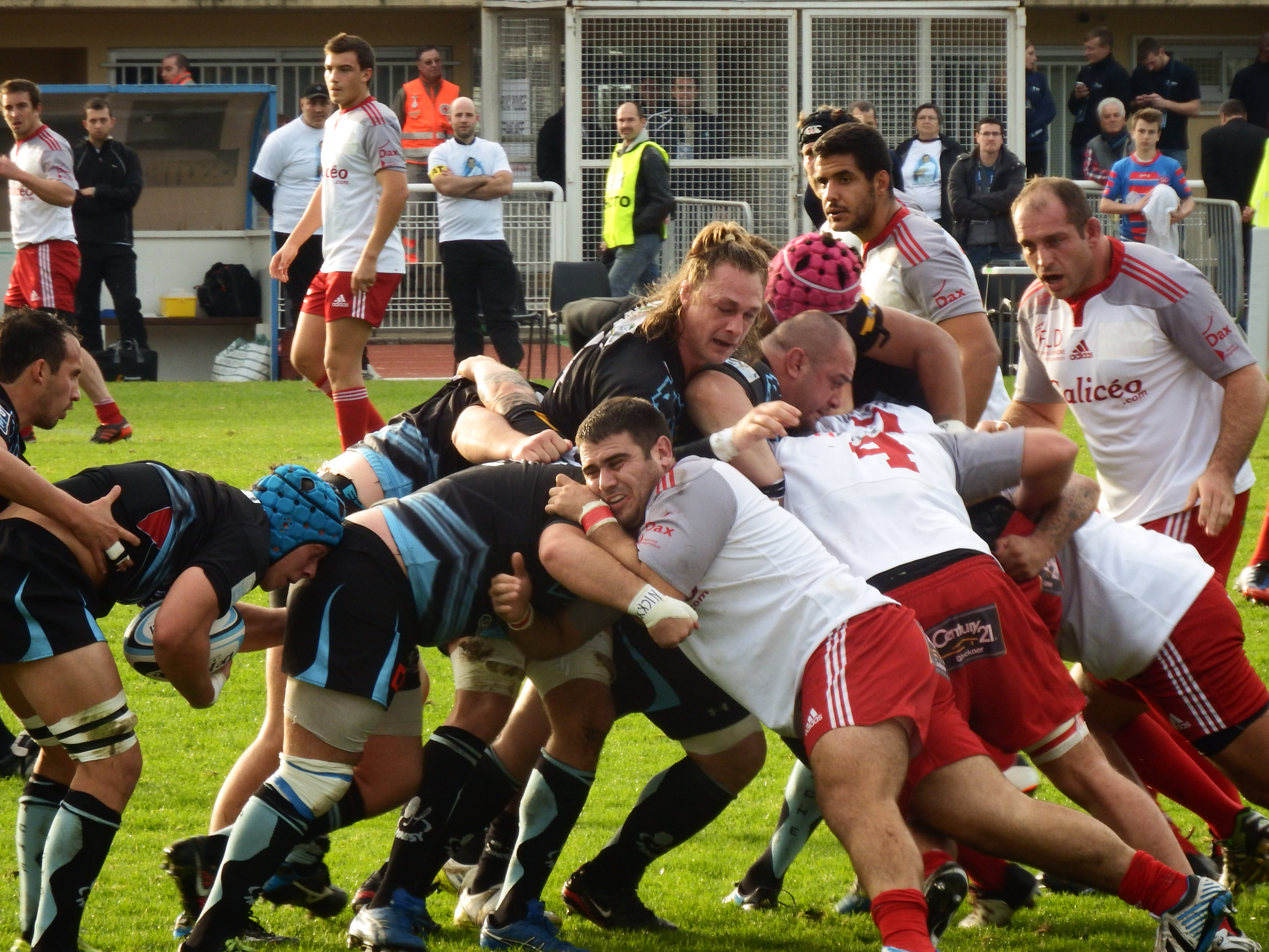 Pro D2 2014-2015 — 23 November 2014, stade Jules-Ladoumègue. Match between: RC Massy — US Dax